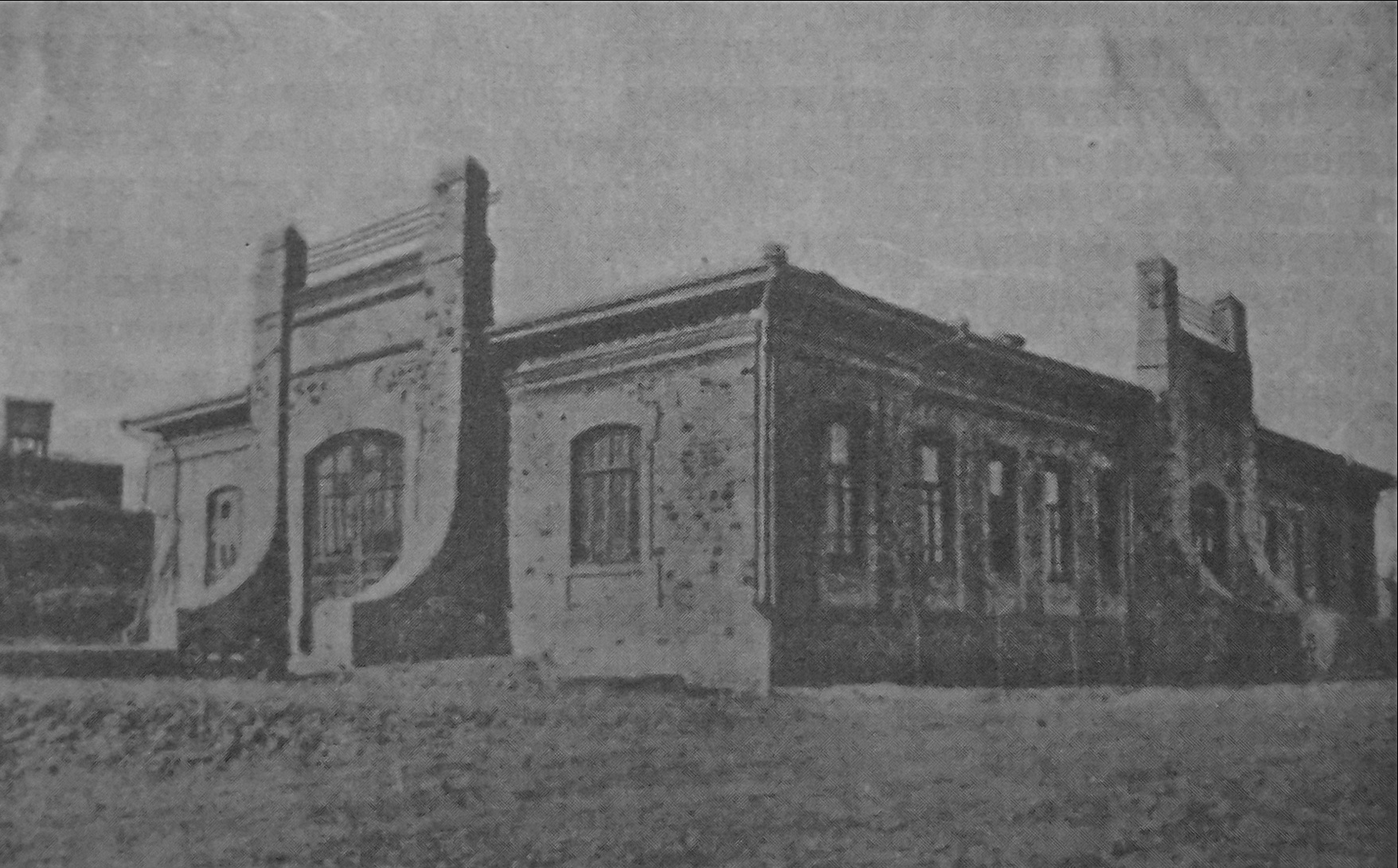 Building of first central mountain rescue station in Makiivka, Ukraine